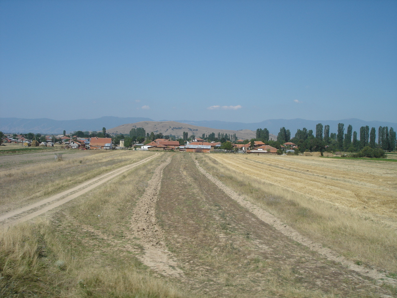 village of Senokos in Dolneni Municipality near Prilep, Macedonia